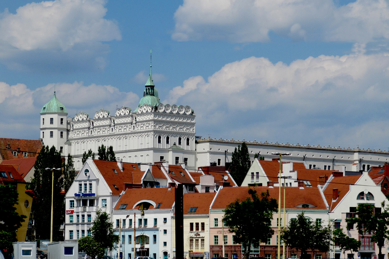 kolaż